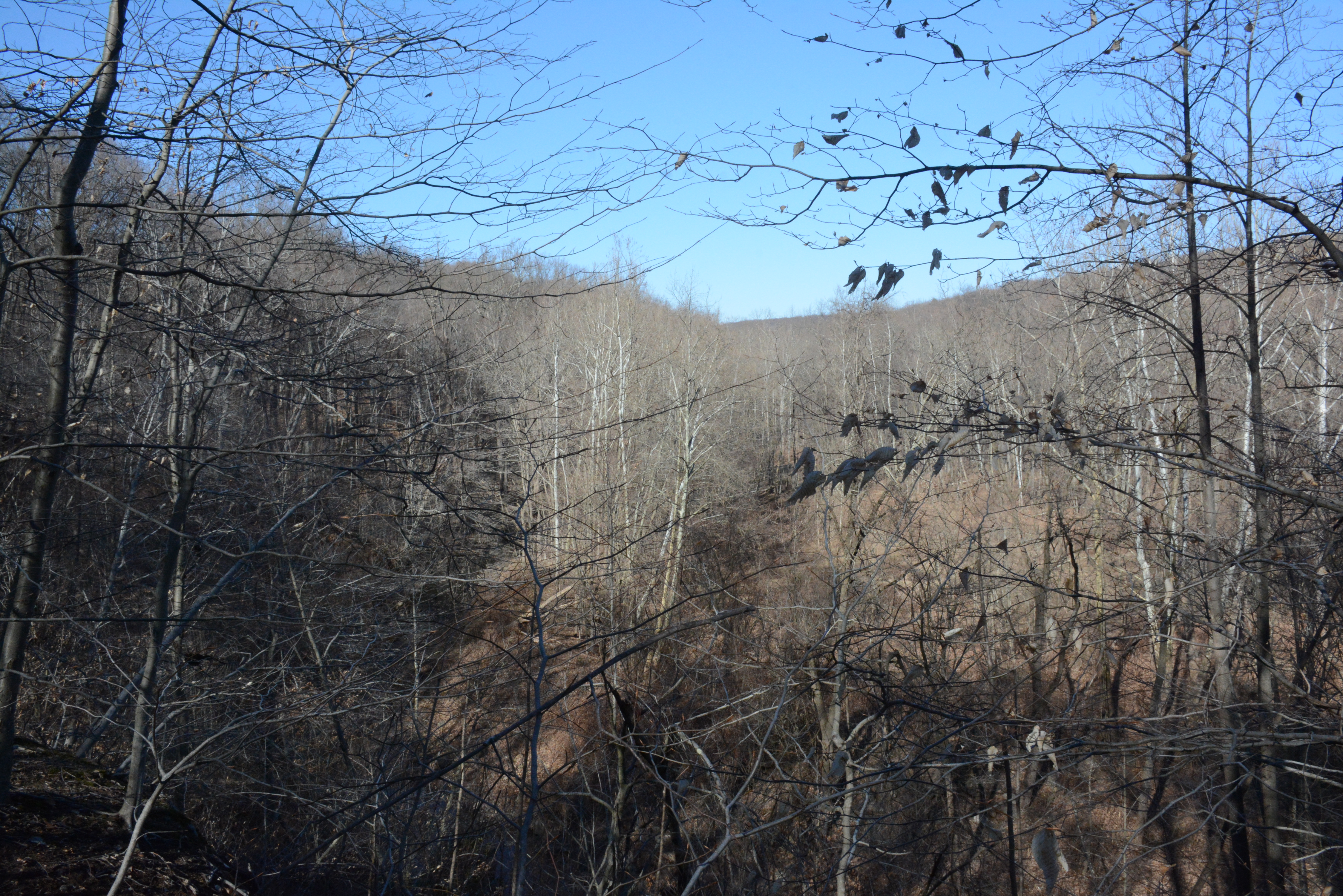 A photograph from near the top of Painter's Point, South Mountain Reservation, New Jersey. Nearby, an escarpment formed by some kind of erosion travels dozens of feet downward, to meet the western banks of the Rahway River.